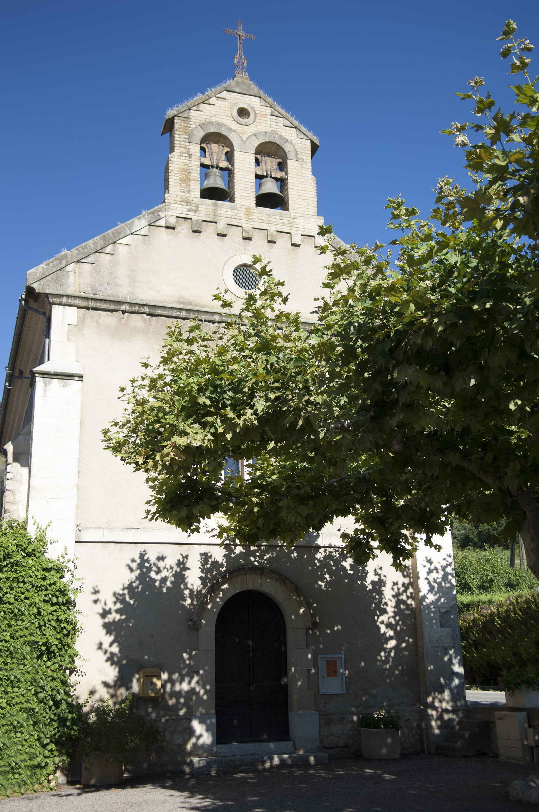 Bras-d'Asse church, Alpes de Haute Provence, France